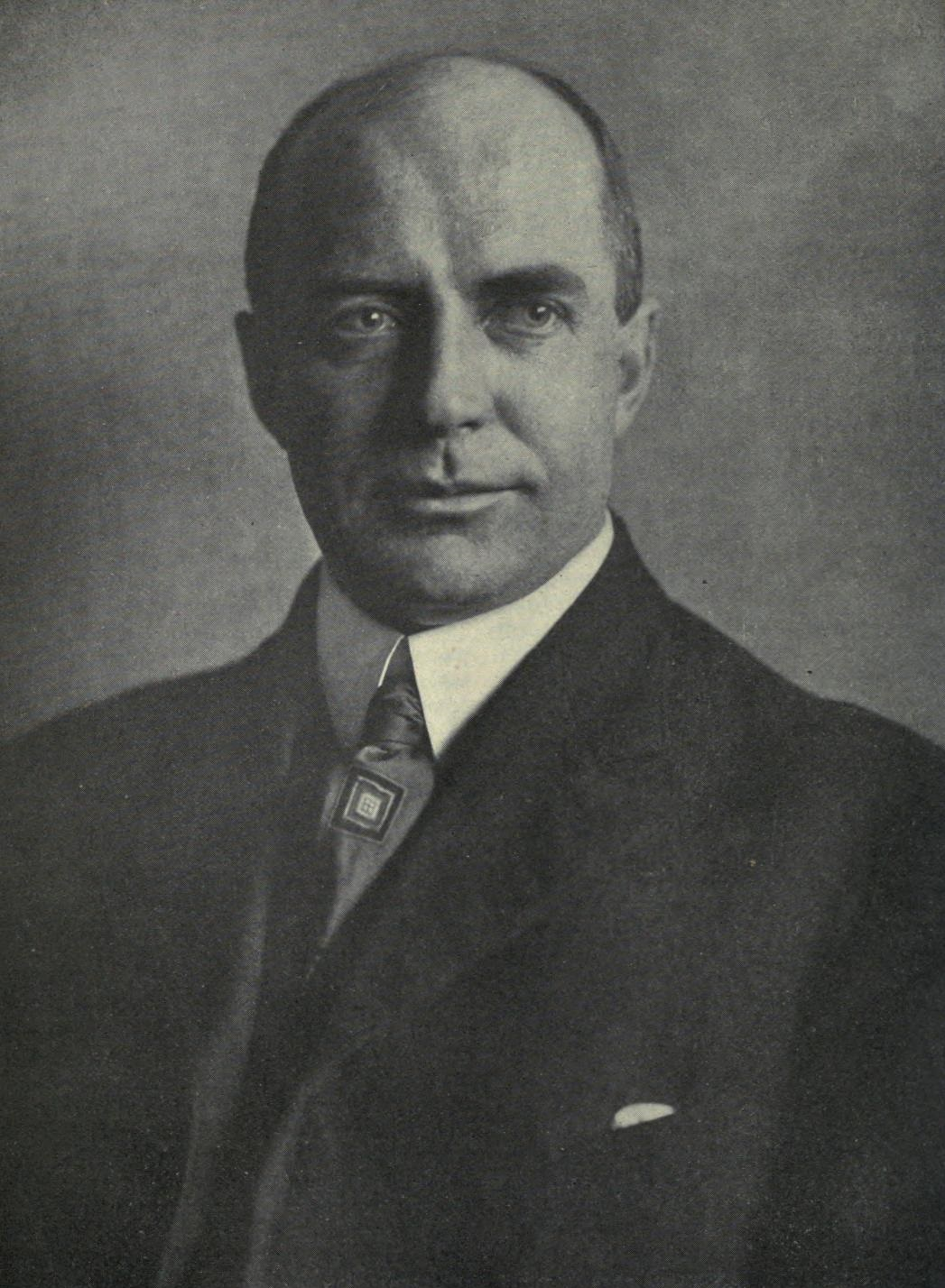 Portrait of W. I. Thomas